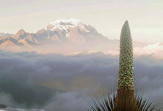 Looking past the world's largest Bromeliad species at the south side of Nevado Illimani, Bolivia. In context at